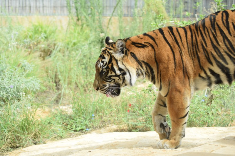 Environment of Israel